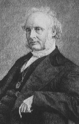 Photograph of portrait of James McCosh, (1811 - 1894). Date and artist unknown. In the public domain. Source [1]